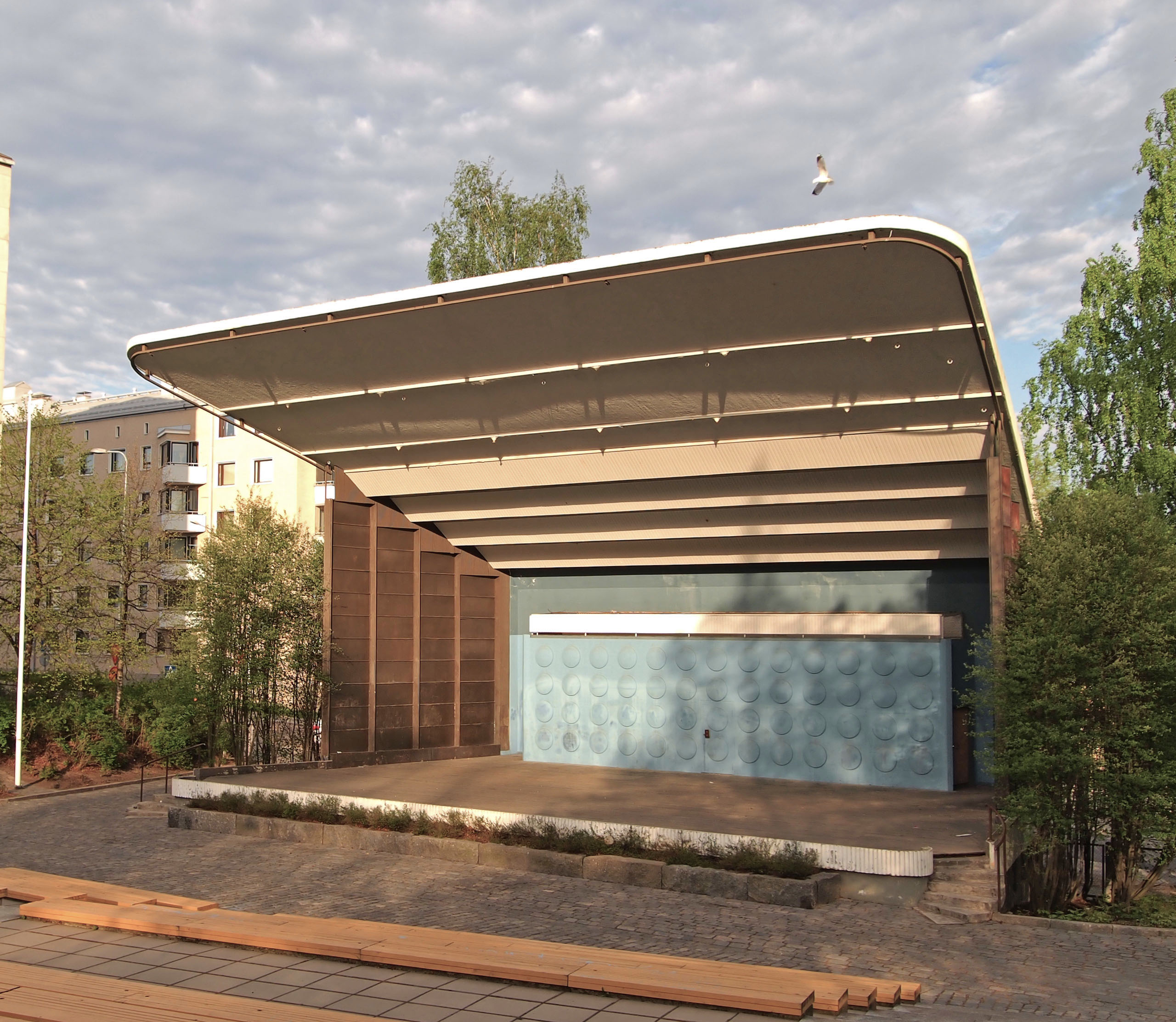 Stage in Jyväskylä.